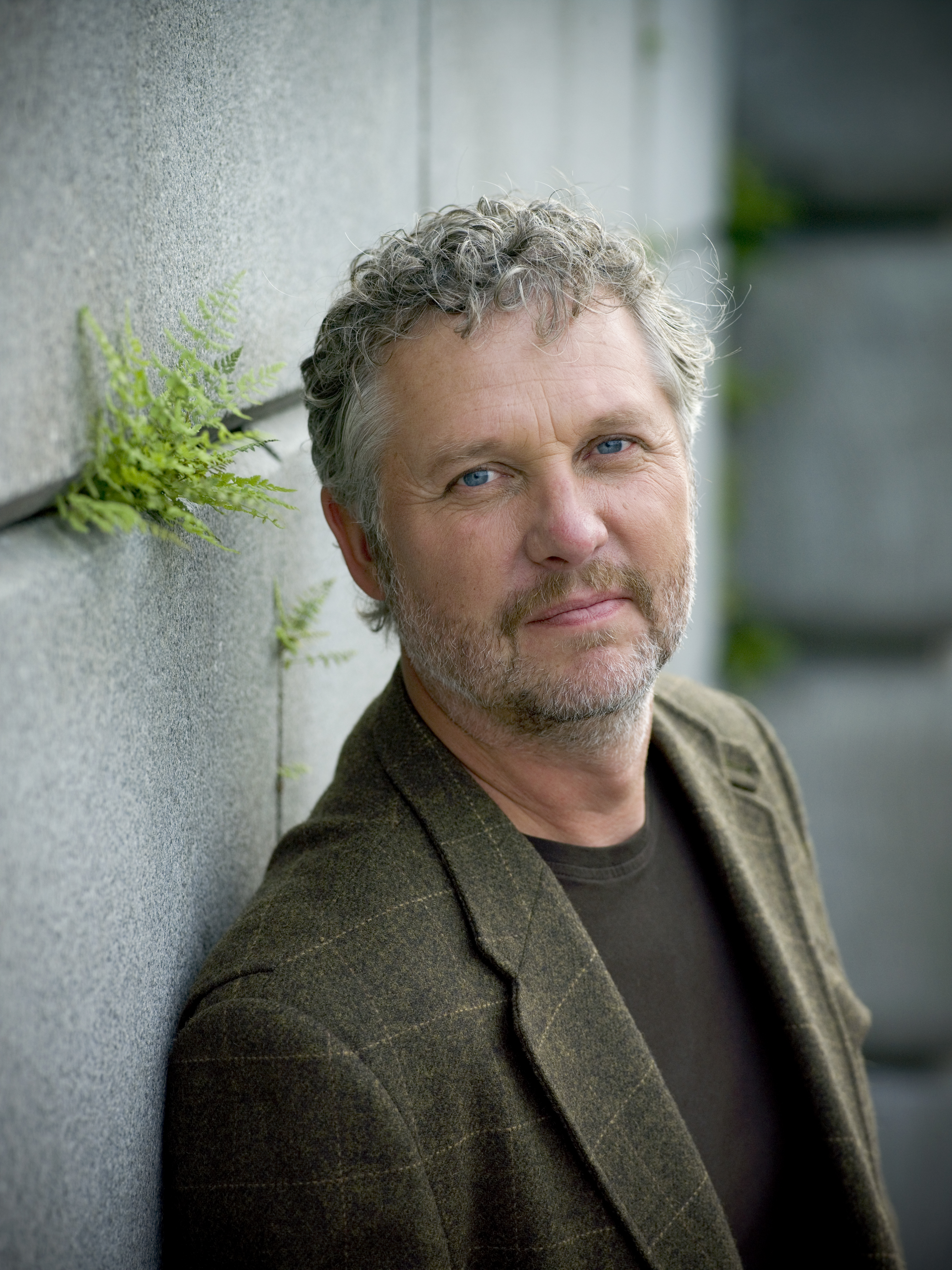 The Swedish Greens spokesperson Peter Eriksson